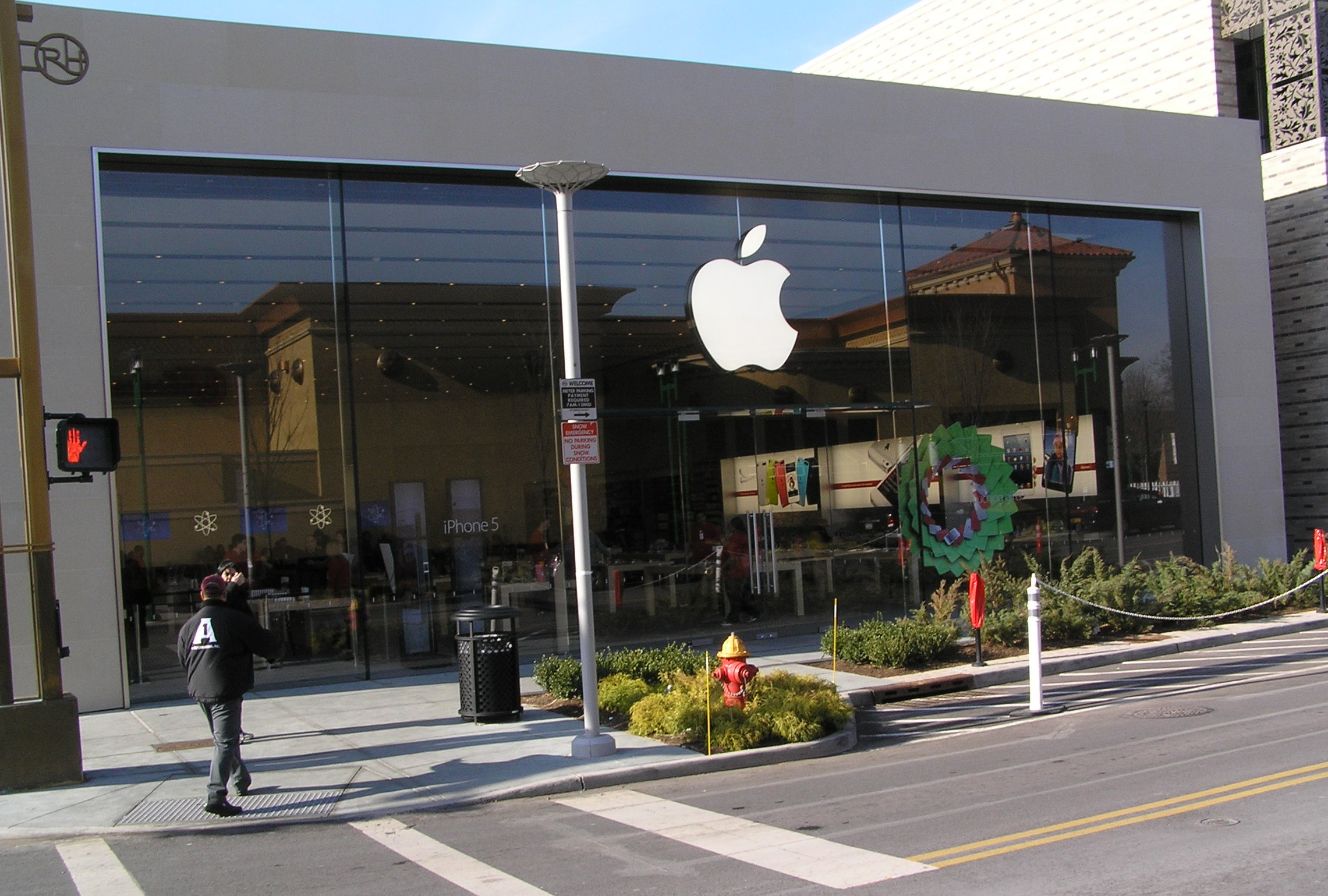 I was walking through the Ridge Hill Shopping Center in Yonkers, NY, on January 8, 2013 and noticed the new Apple store. I couldn't resist taking a picture, and here it is for viewers to enjoy.